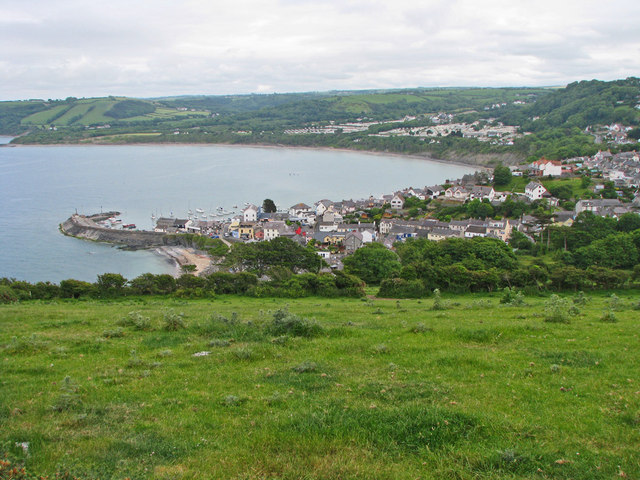 Meadow atop New Quay headland The view is across a high sloping meadow from a point near the coastal trail footpath. The midground is a residential section of the town of New Quay'